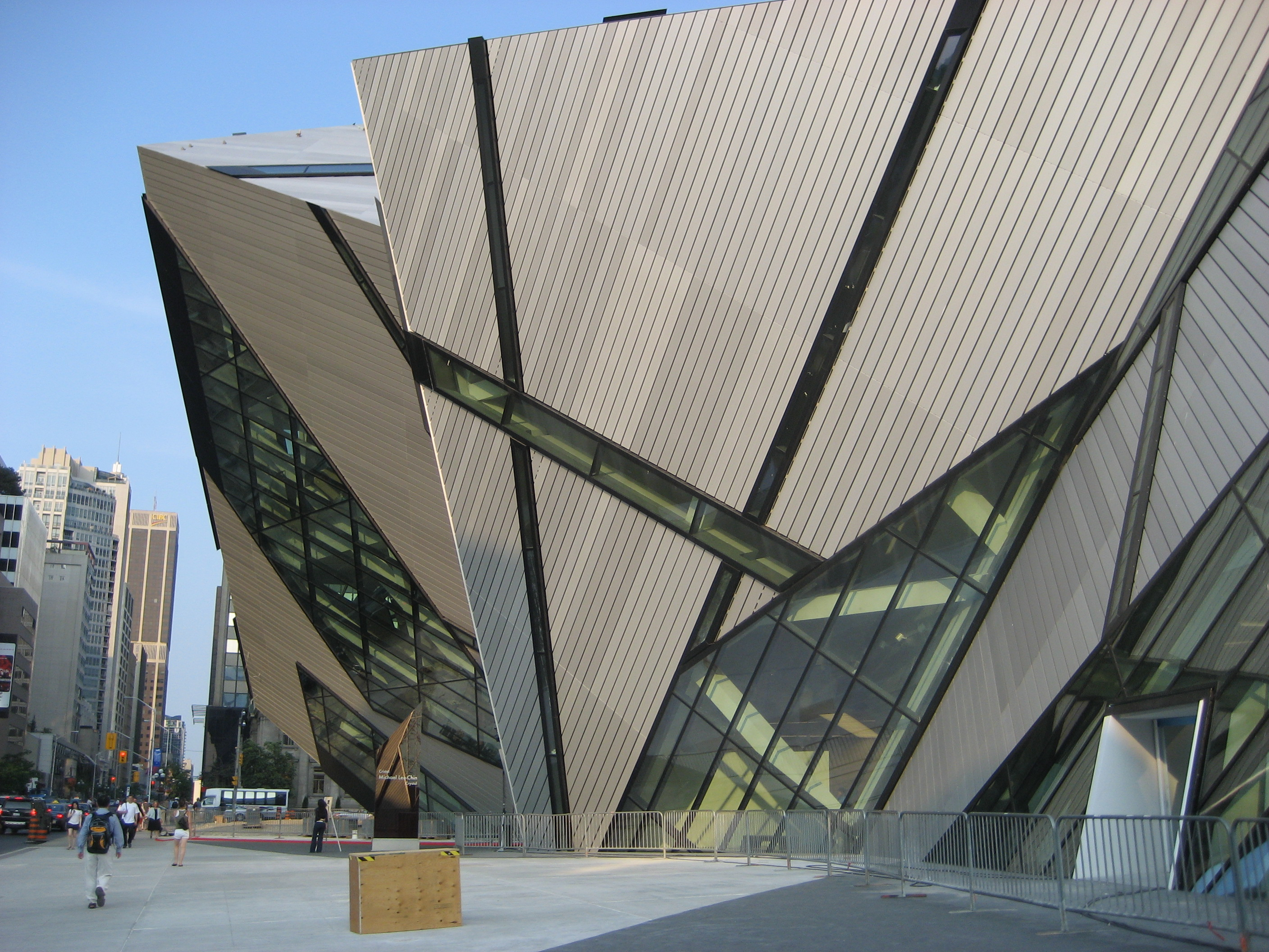 Michael Lee-Chin Crystal, an addition to the Royal Ontario Museum scheduled for completion in June, 2007. Looking east on Bloor Street towards Avenue Road in Toronto, Canada.